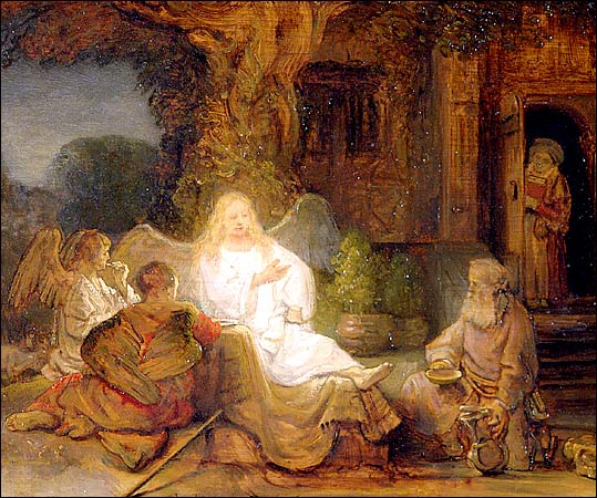 This image is available from the Netherlands Institute for Art Historyunder digital ID 51193. This tag does not indicate the copyright status of the attached work. A normal copyright tag is still required. See Commons:Licensing.